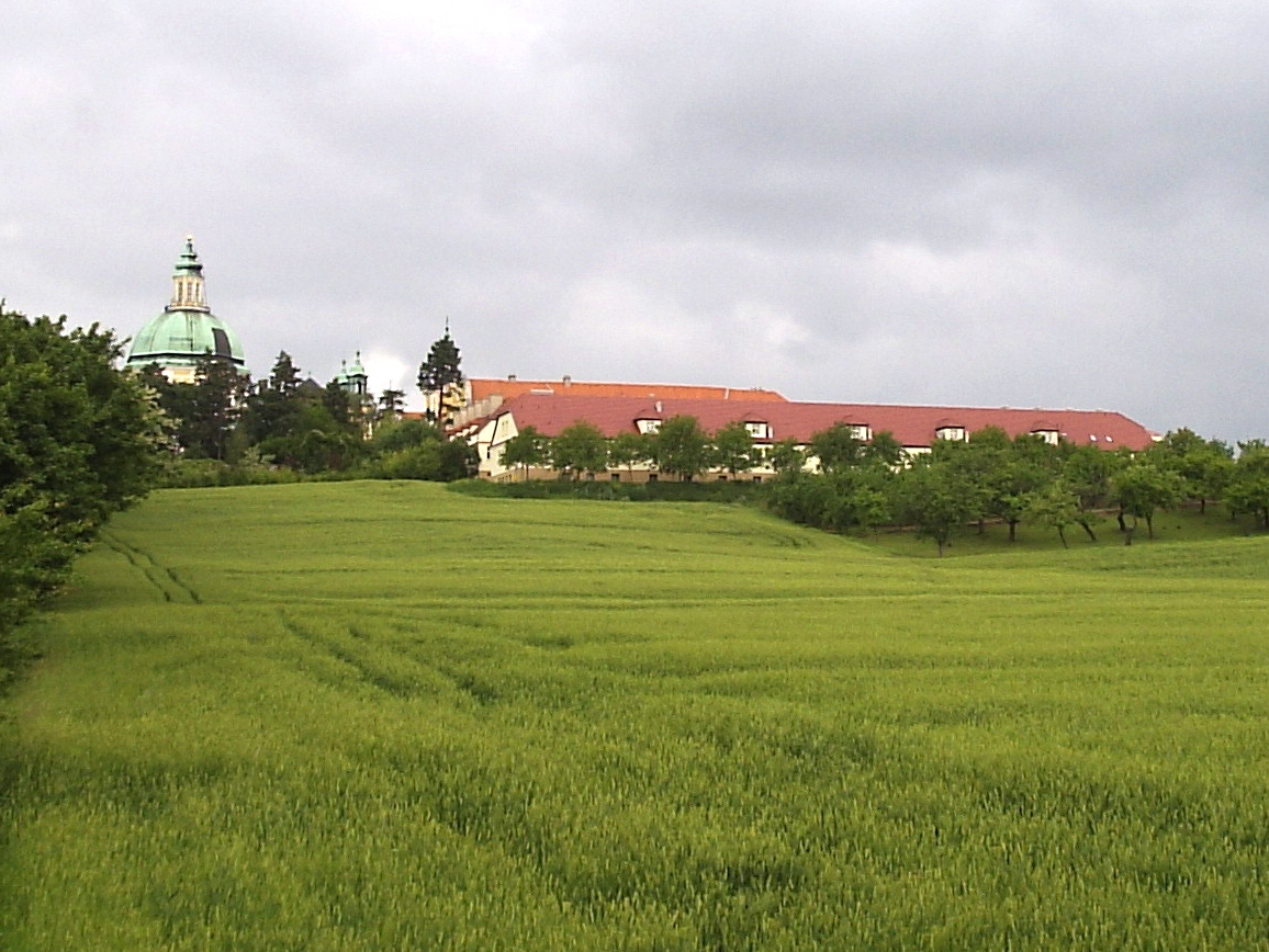 The Church on the Holy Hill - Głogówko near Gostyń, Poland